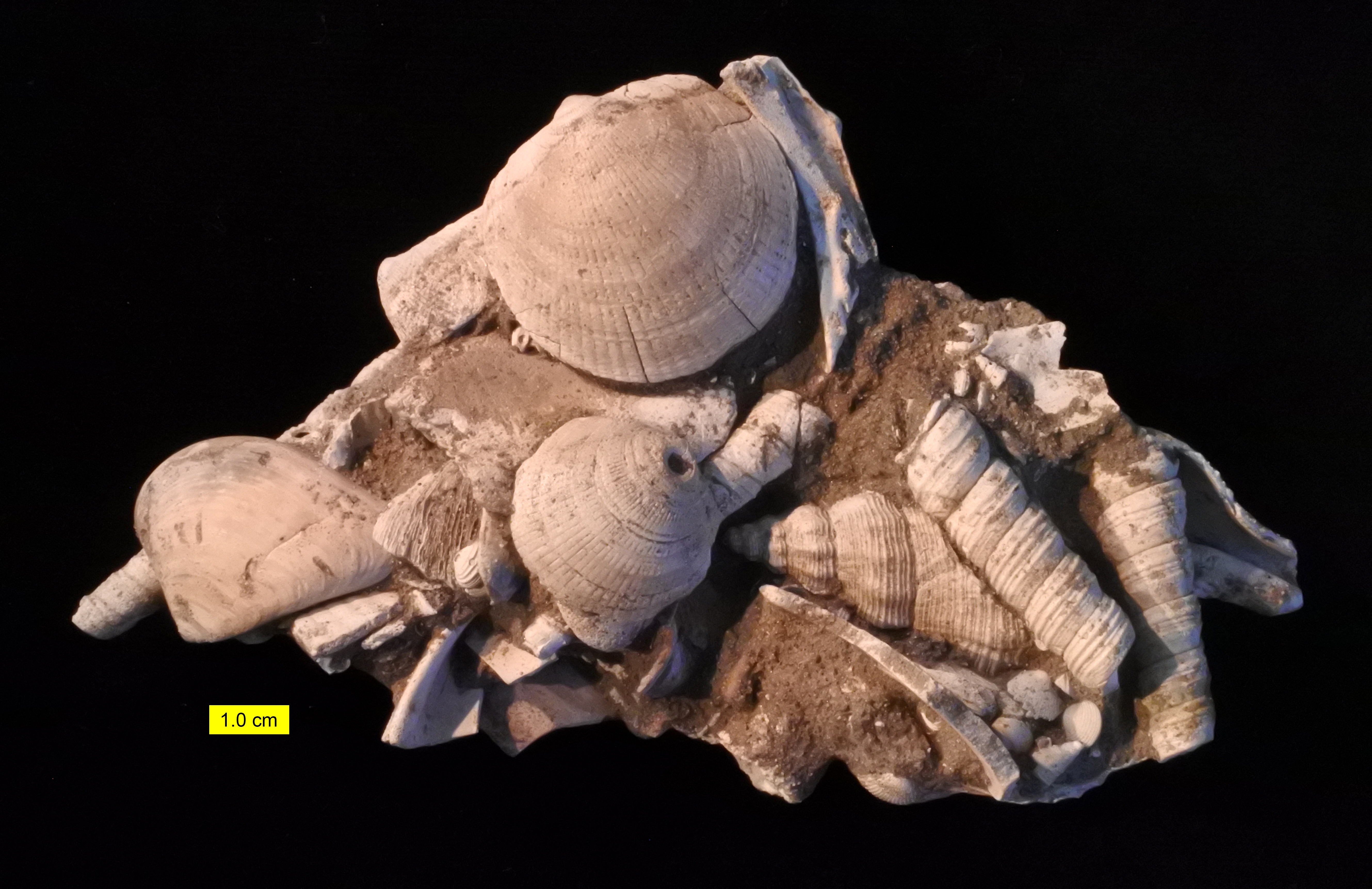 Fossils from the Calvert Formation, Zone 10, Calvert Co., MD (Miocene); collected by Dale Chadwick.